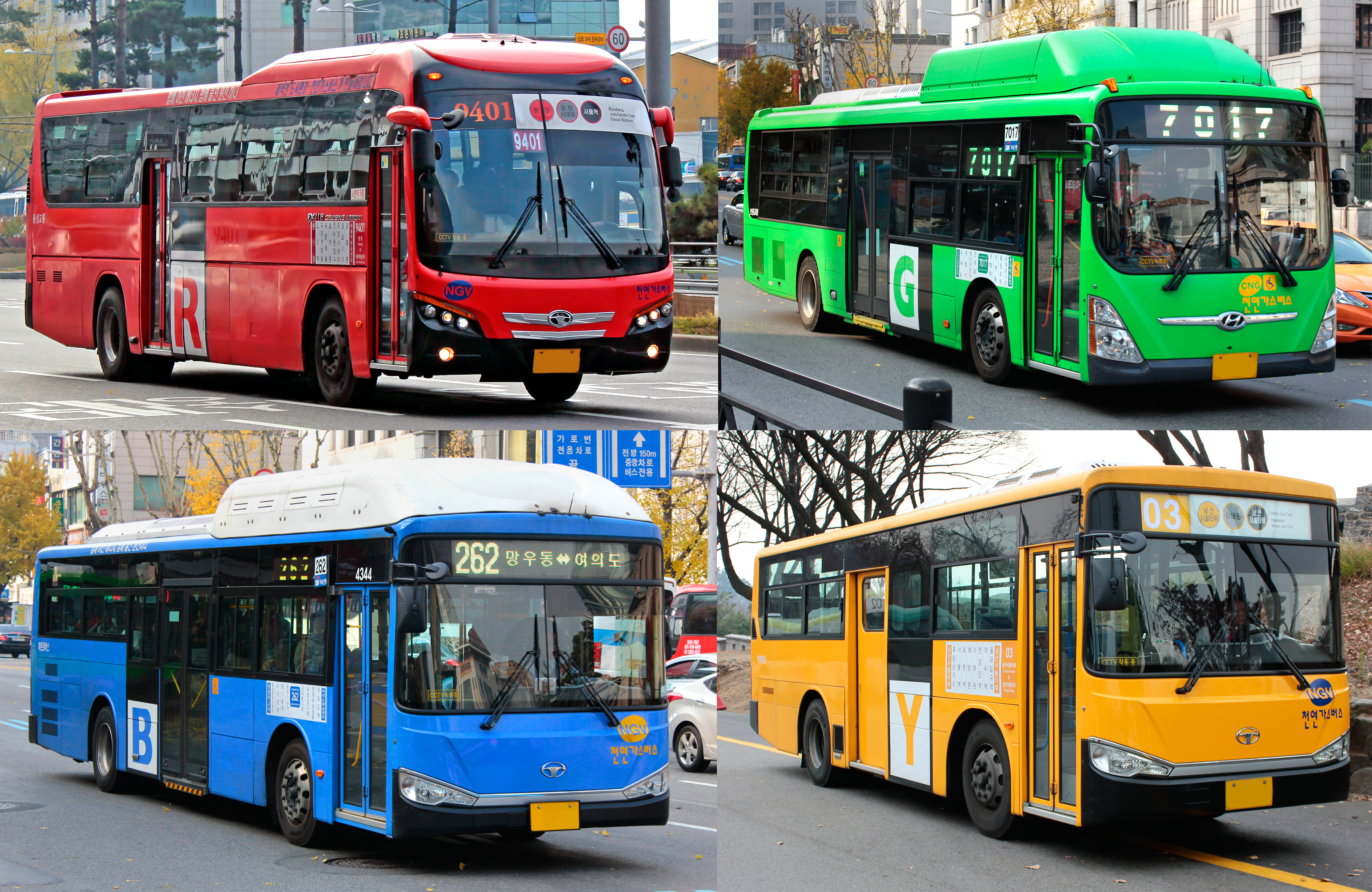 (From top to bottom, left to right) Rapid, Branch, Trunk, Circulation.